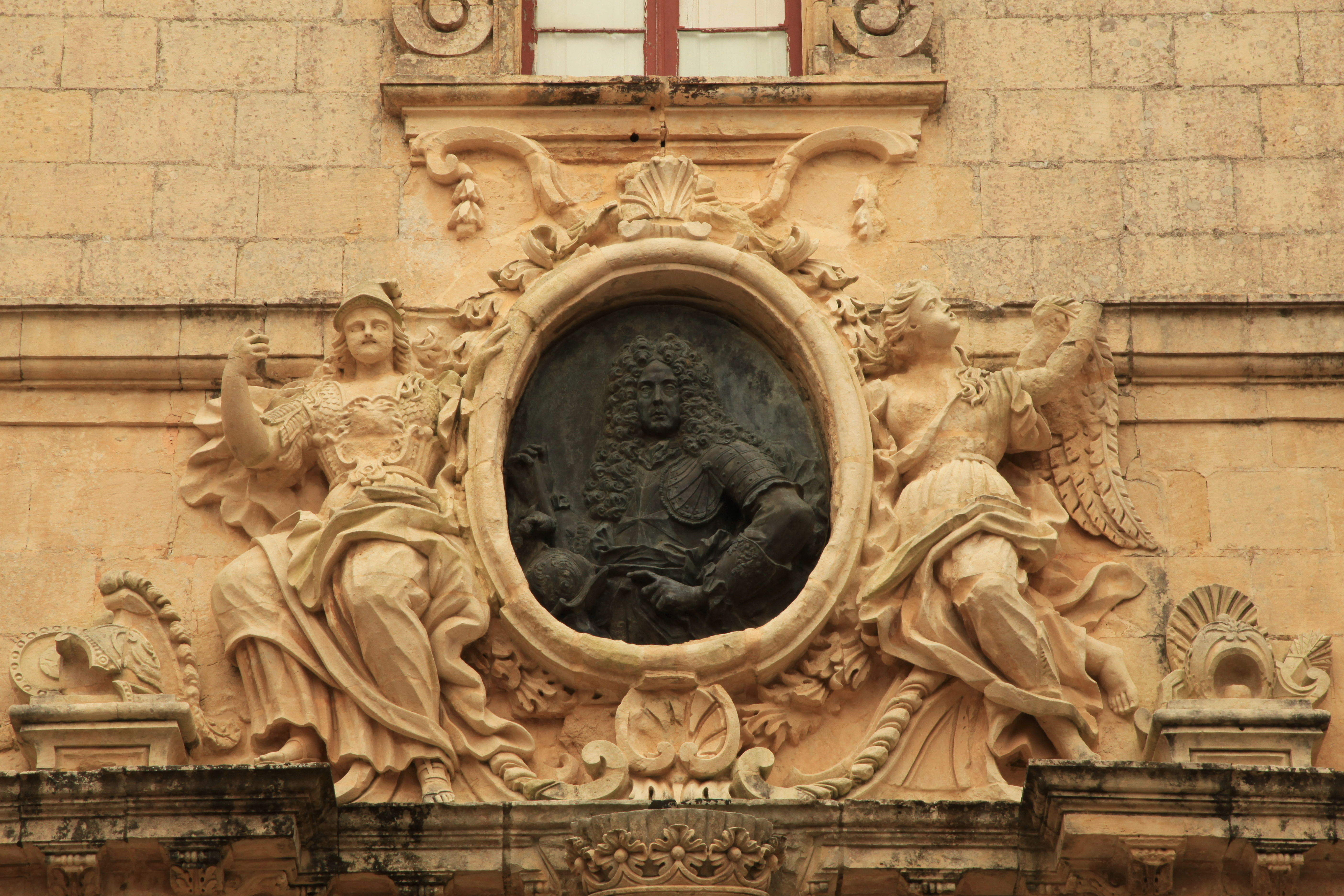 Vilhena-Palace at Pjazza San Publiju in Mdina, Malta